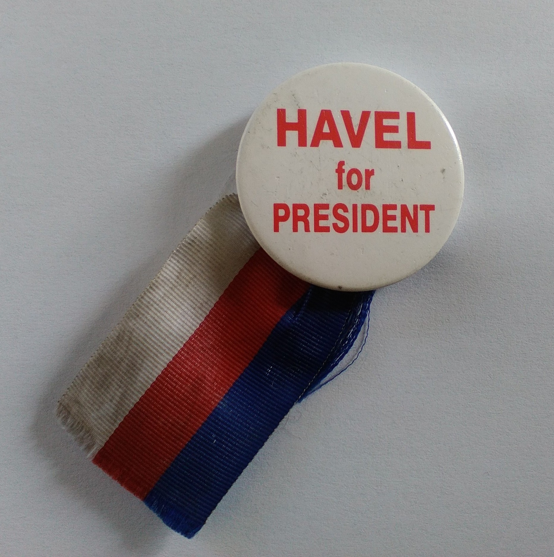 Pin-back button, Prague 1989